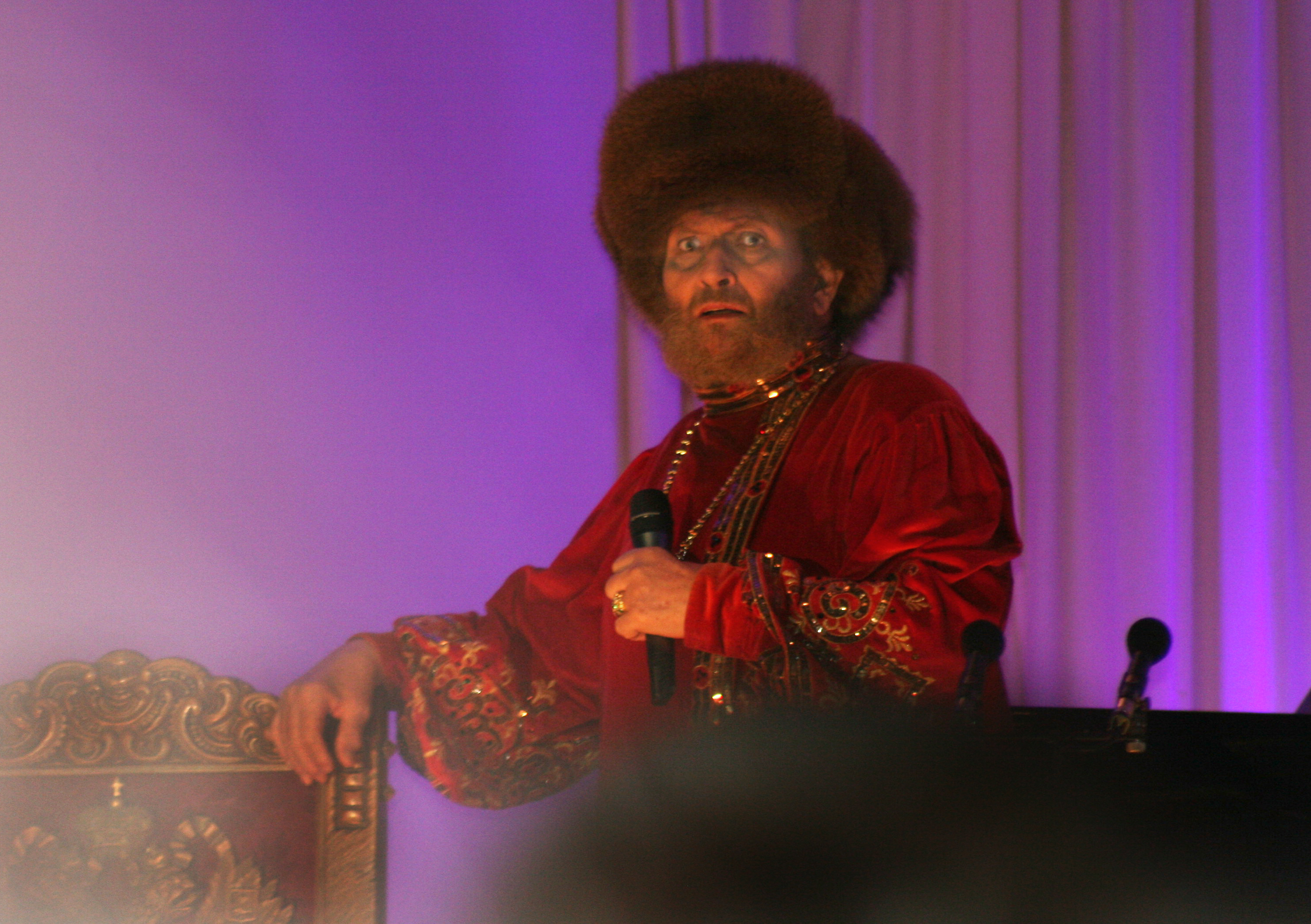 A walk concert in Abbaye de la Cambre in Brussels Ixelles